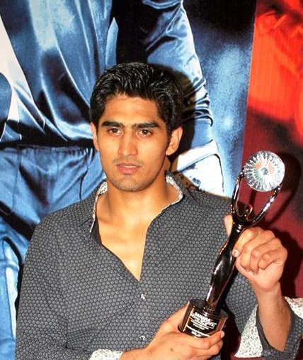 Vijender singh at the sahara indian sports award